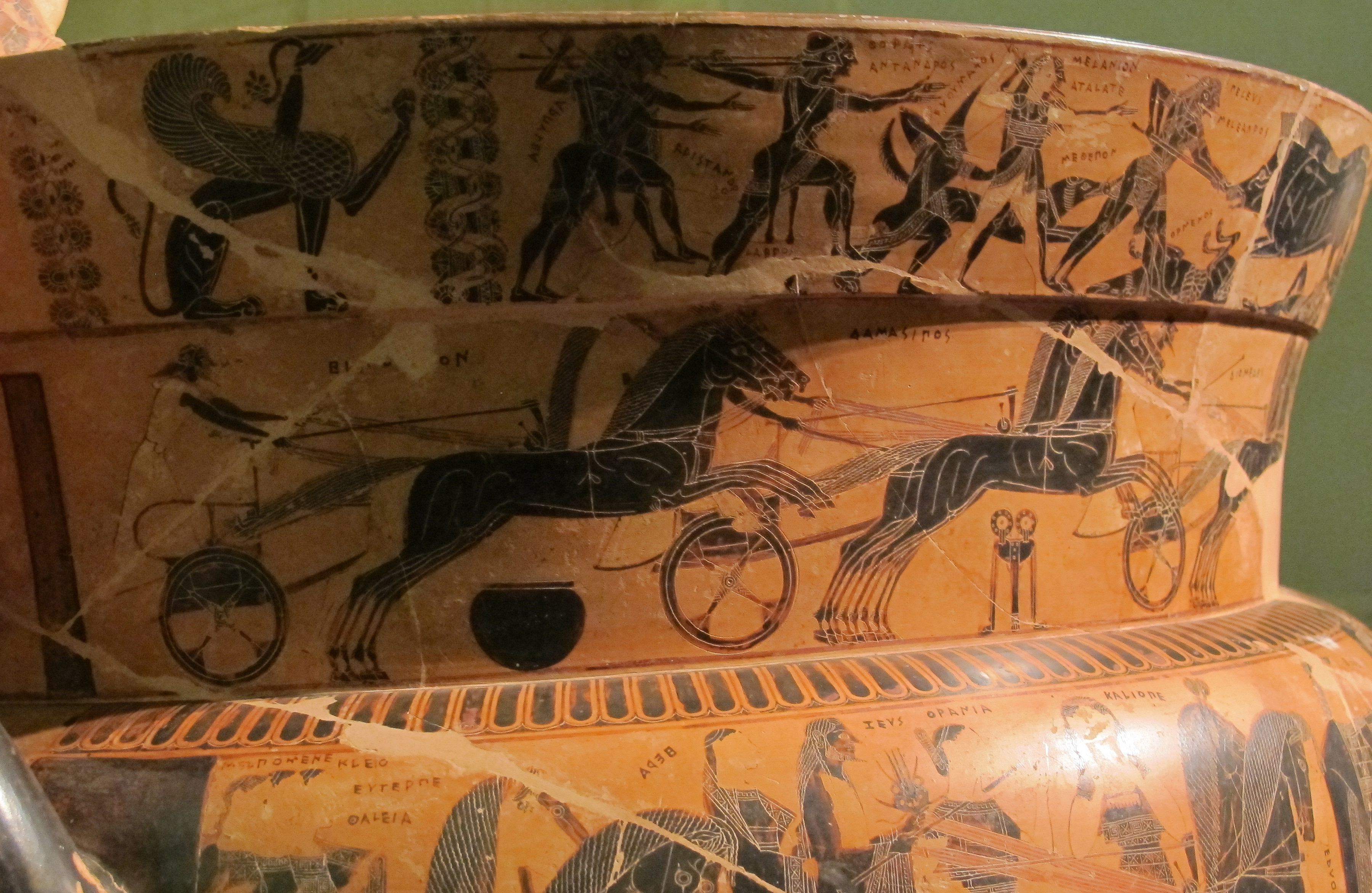 François vase